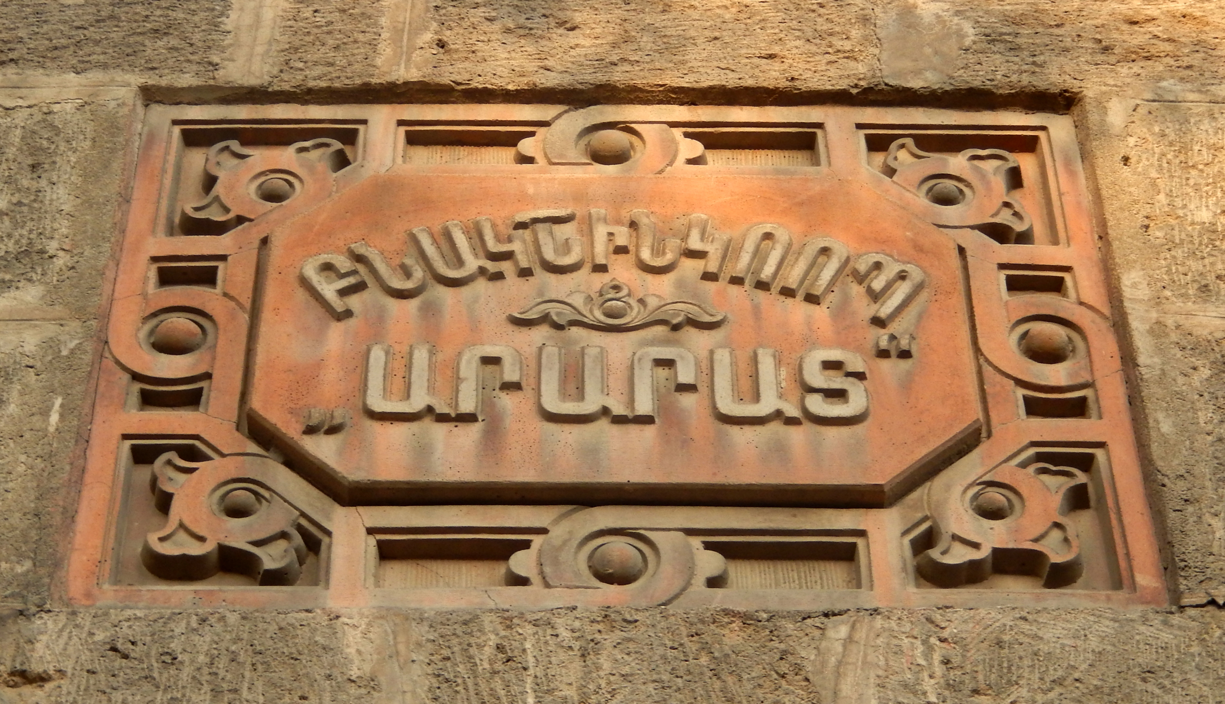 «Արարատ» տրեստի բնակելի տների համալիր